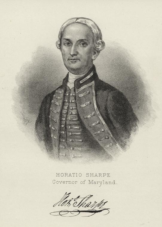 Drawing of Horatio Sharpe, former Proprietary Governor of Maryland. Image courtesy of the New York Public Library. .